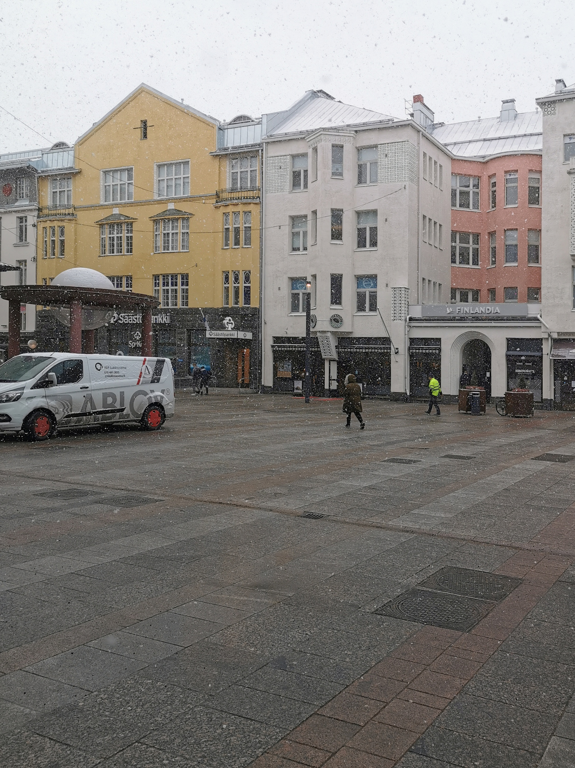 Snowing at the Oulu Central Square.